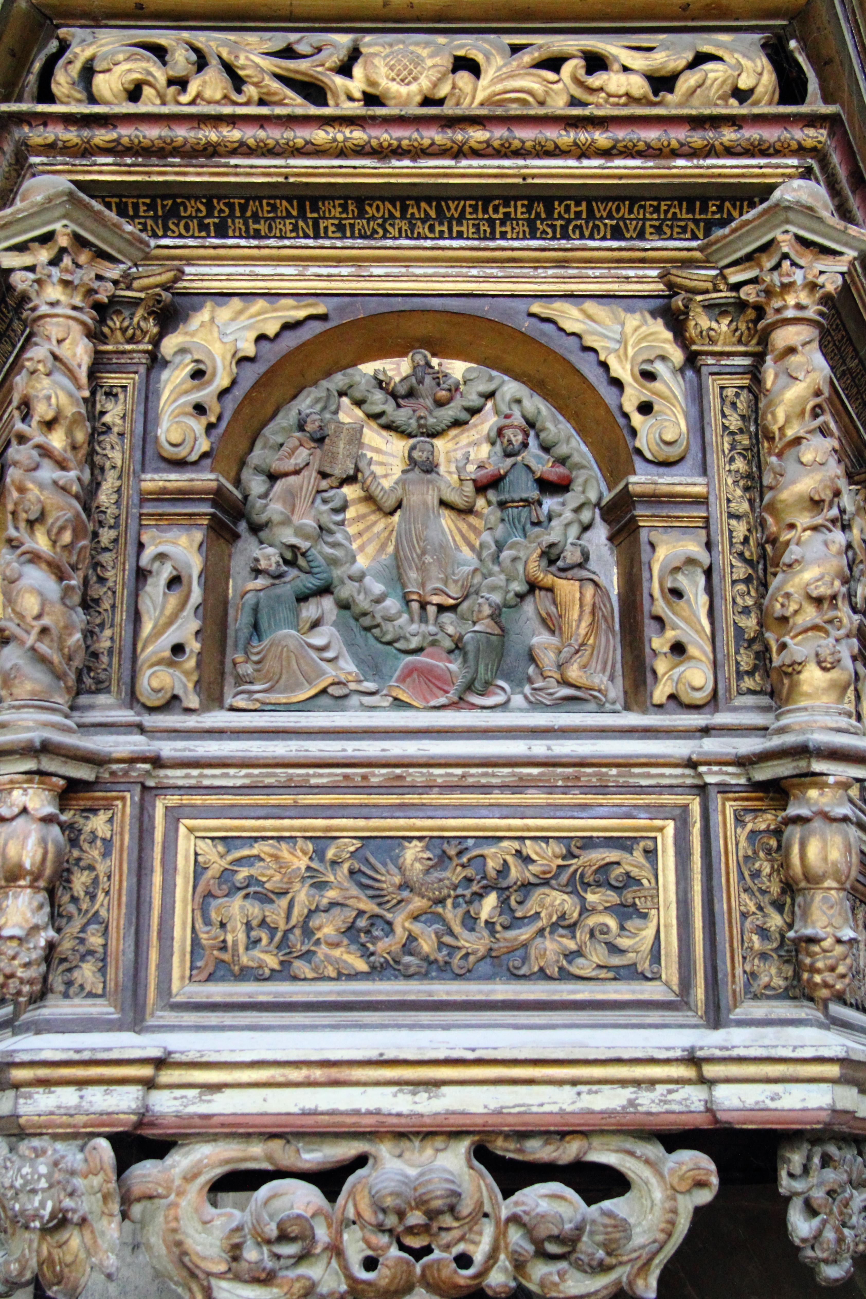 Halberstadt, Germany: St. Martins Church